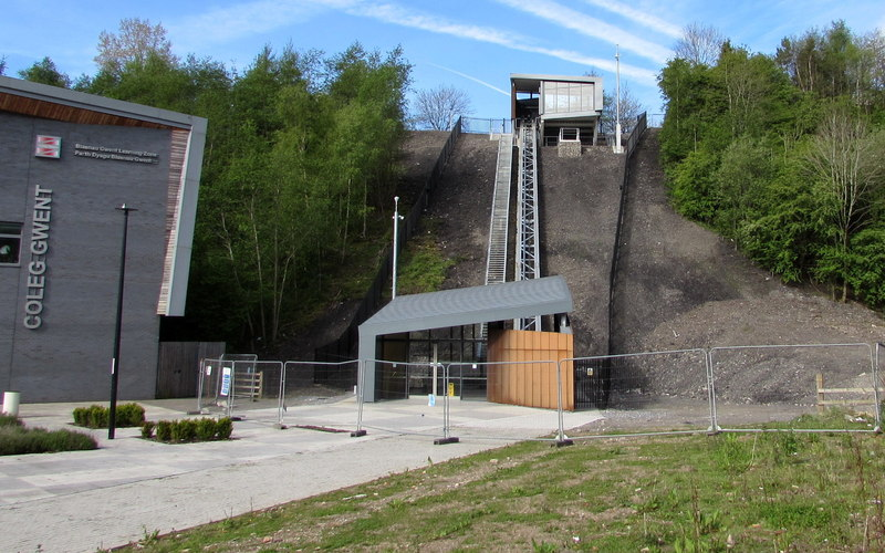 This is an image of the Ebbw Vale Cableway just before opening. Viewed from Lime Avenue. Not yet open in mid May 2015, the £2.5 million Mechanical Link is part of the Ebbw Vale Town Regeneration Programme. It is a cableway system between the former steelworks site (now occupied by a college campus, a school and the newly-opened Ebbw Vale Town railway station) up to the edge of the A4046. A cabin holding about 20 people (weight limit 1,850 kg) will provide an easy and efficient pedestrian link to and from the town centre. The track is c47m long and rises c23m. Each journey will take about three minutes.